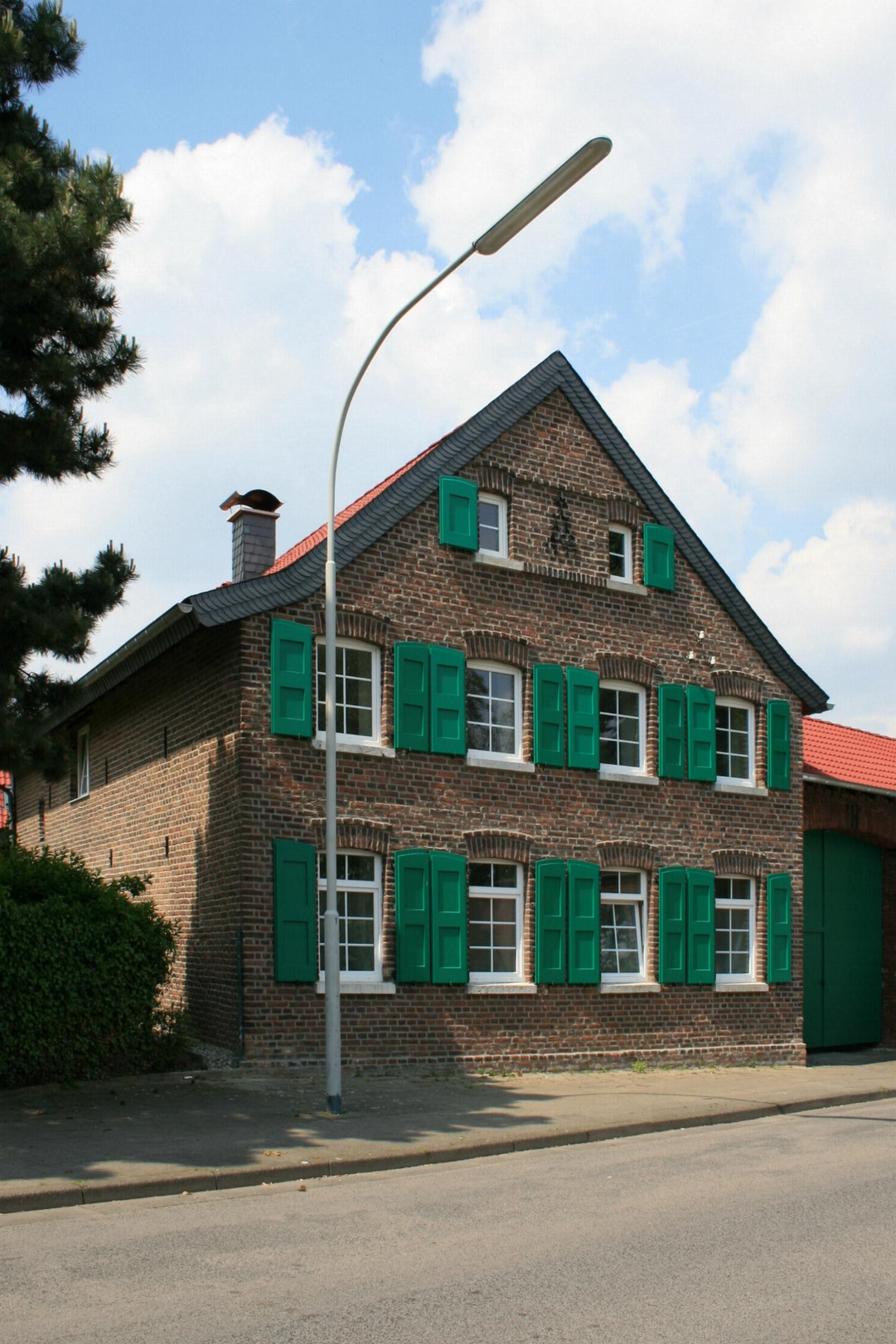 Cultural heritage monument No. C 006 in Mönchengladbach